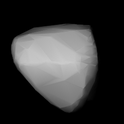 3D convex shape model of 577 Rhea, computed using light curve inversion techniques. J. Hanuš, J. Ďurech, M. Brož, B. D. Warner (June 2011). "A study of asteroid pole-latitude distribution based on an extended set of shape models derived by the lightcurve inversion method". Astronomy and Astrophysics 530: A134. ISSN 0004-6361. arXiv